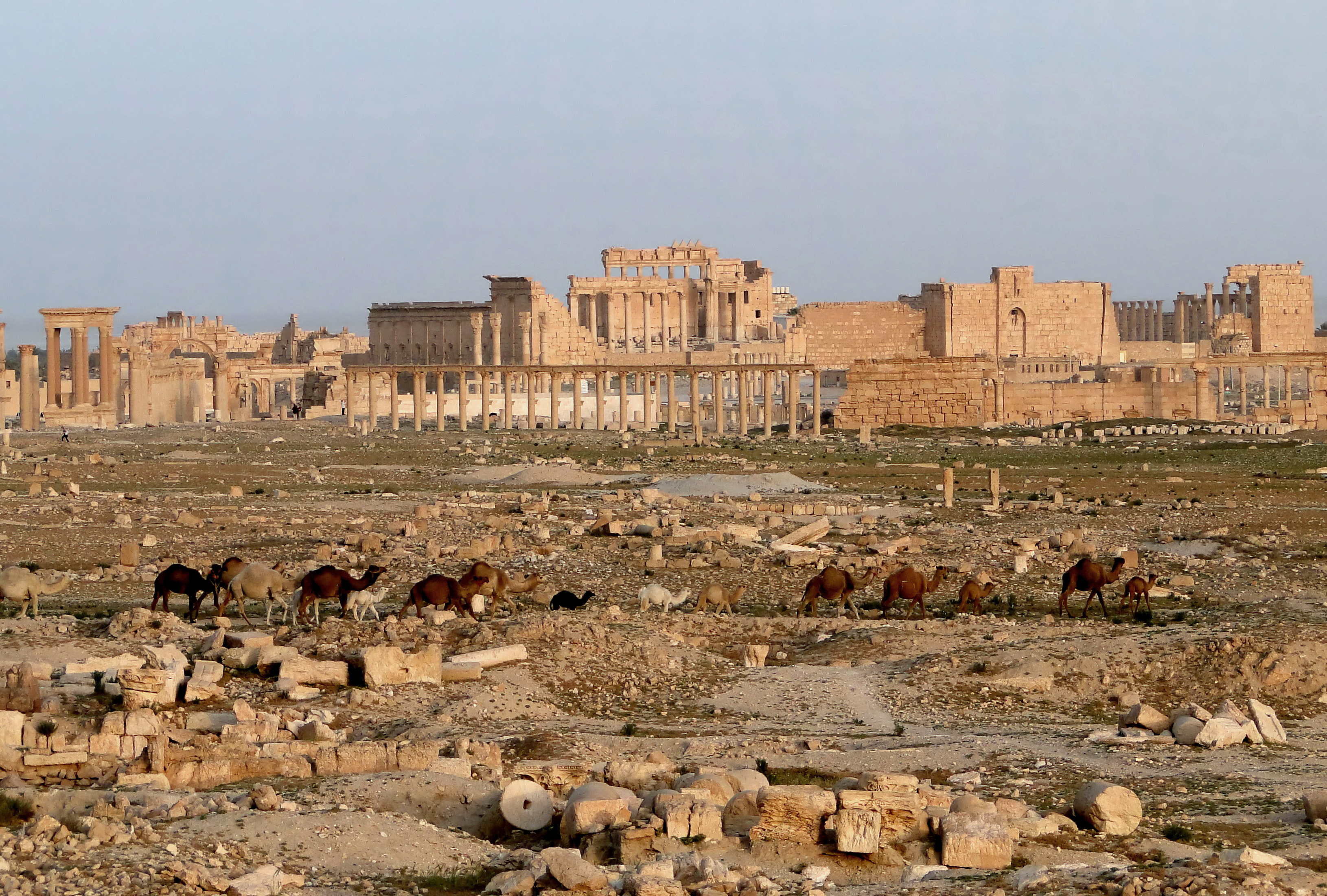 View of Palmyra with the Temple of Bel, Syria